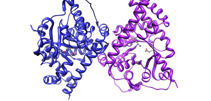 Crystallographic structure of human transaldolase.